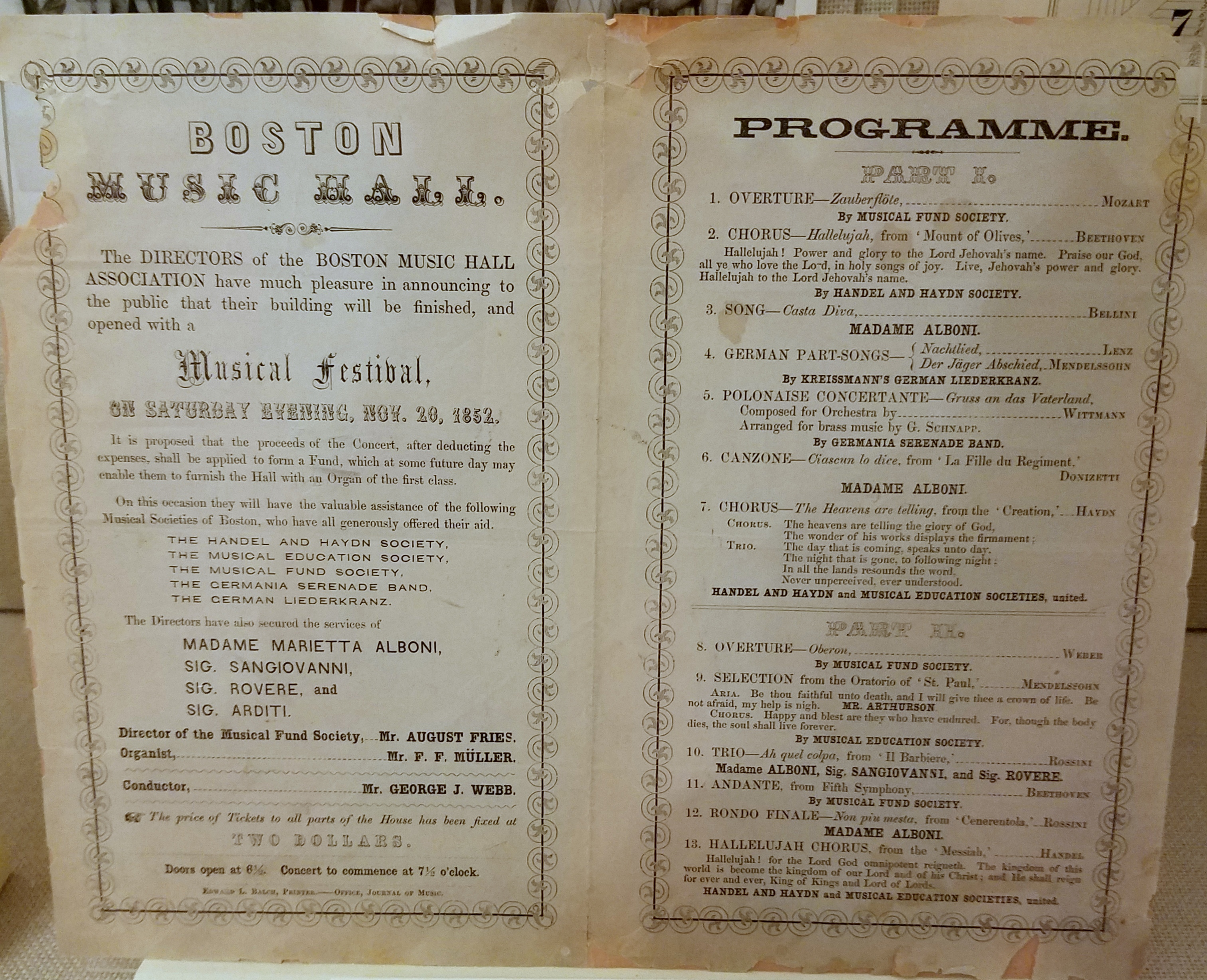 Exhibit - Boston Symphony Orchestra - Boston, Massachusetts, USA.